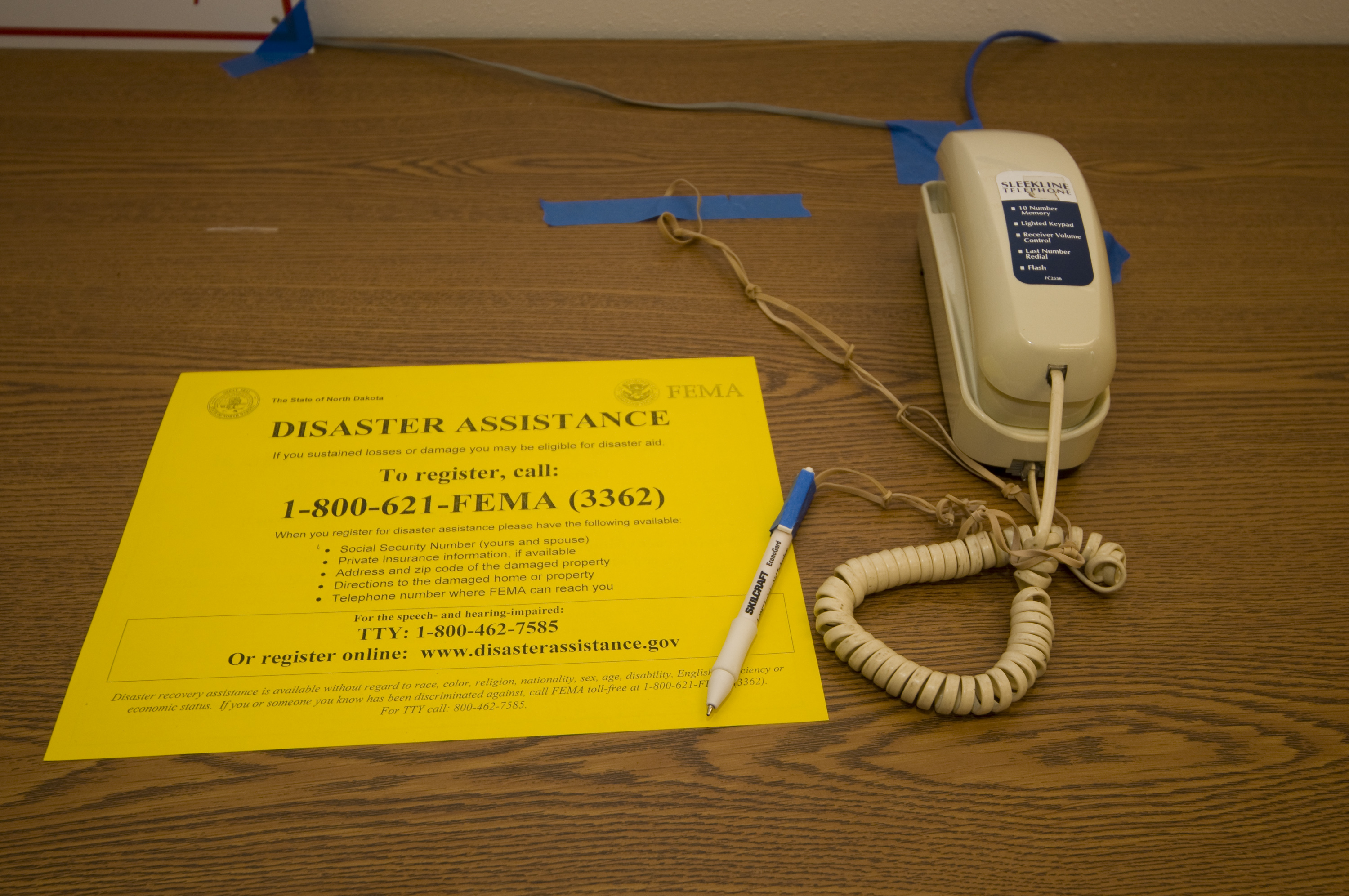 Wahpeton, ND, April 18, 2009 --A phone is available for use at the DRC in Wahpeton, ND. FEMA is providing assistance to residents and businesses affected by recent flooding. Photo by Patsy Lynch/FEMA